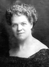 A portrait of a white woman with light wavy hair in an bouffant updo. She is wearing a black dress or blouse.